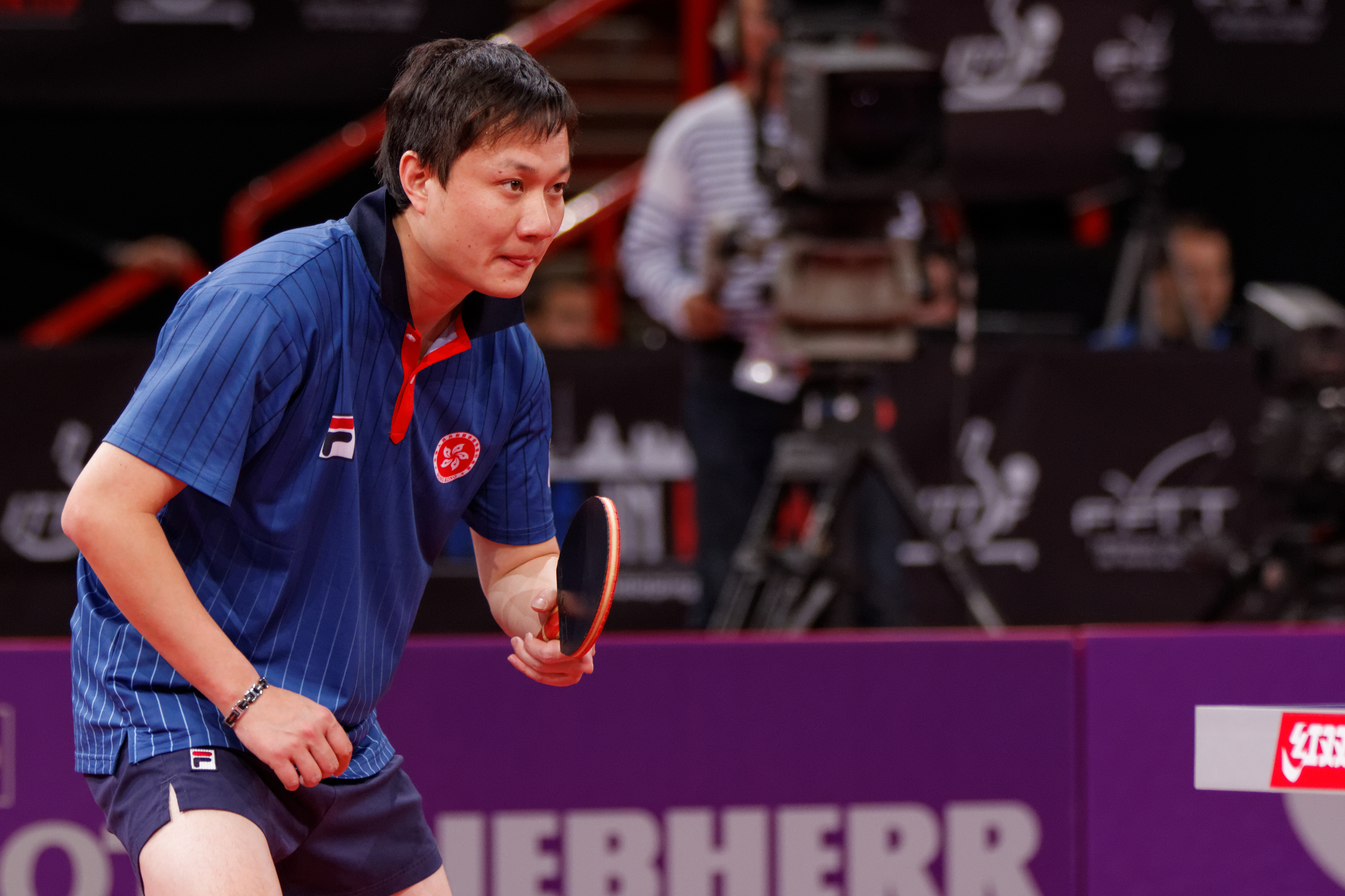 2013 World Table Tennis Championships, Paris. Mixed Doubles Semifinal. Cheung Yuk and Jiang Huajun vs Kim Hyok-Bong and Kim Jong.